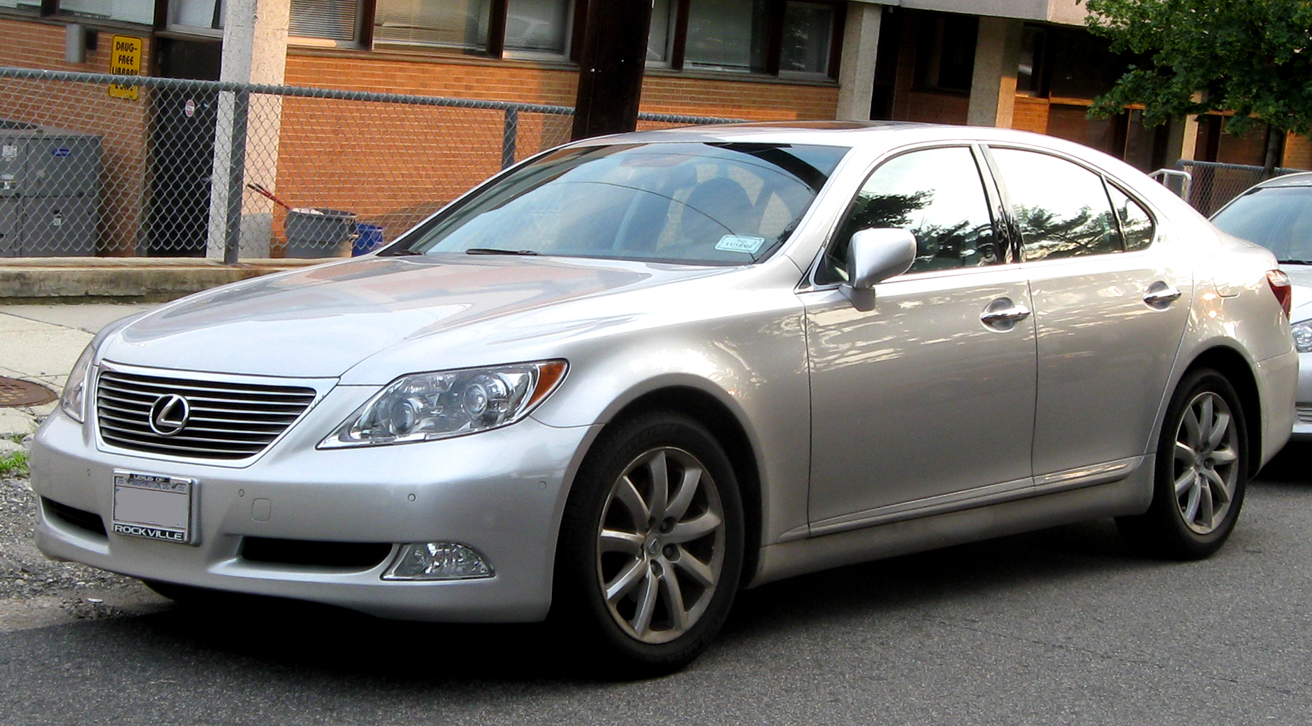 2007-2009 Lexus LS460 photographed in Washington, D.C., USA.